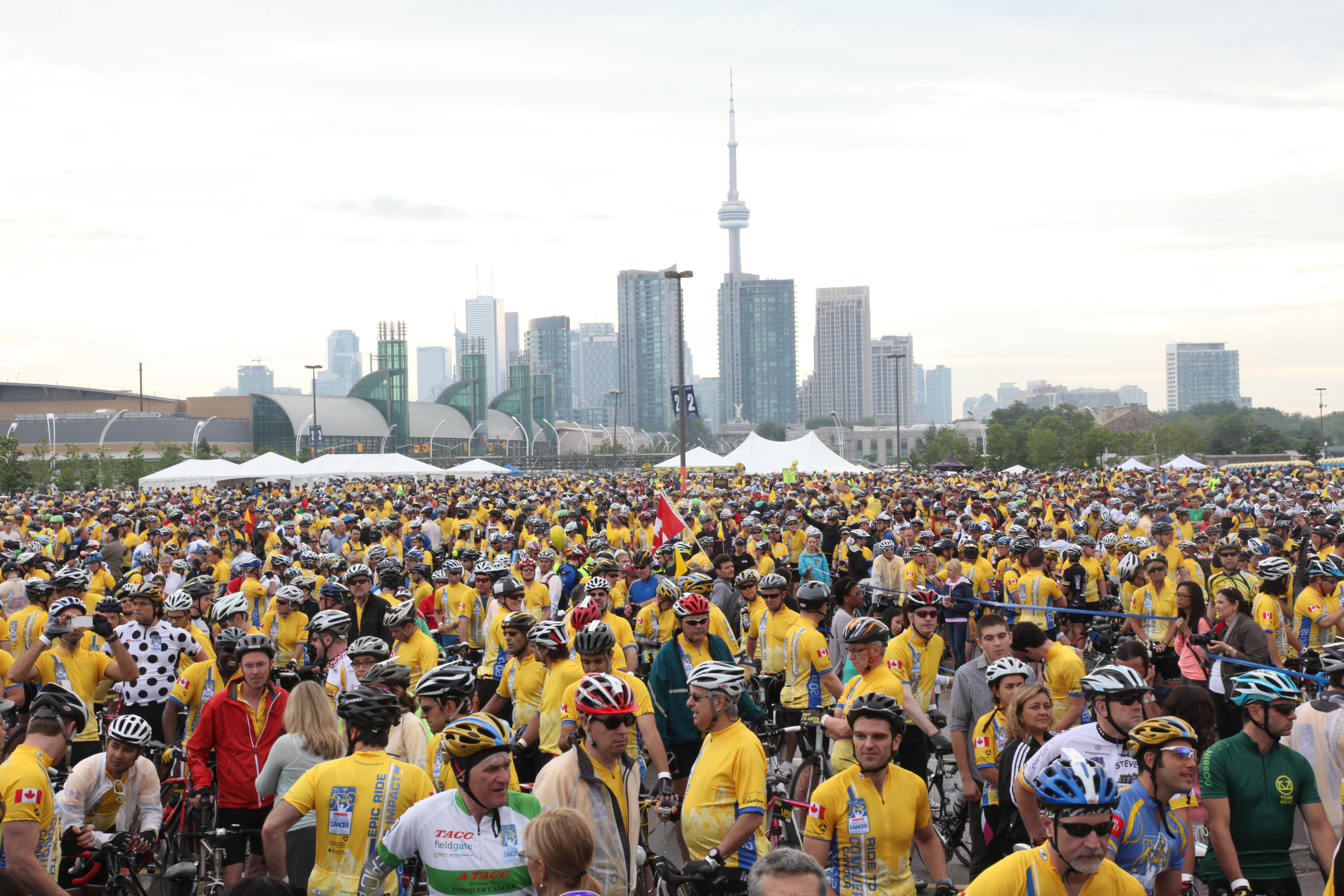 Ride to Conquer Cancer Toronto 2013